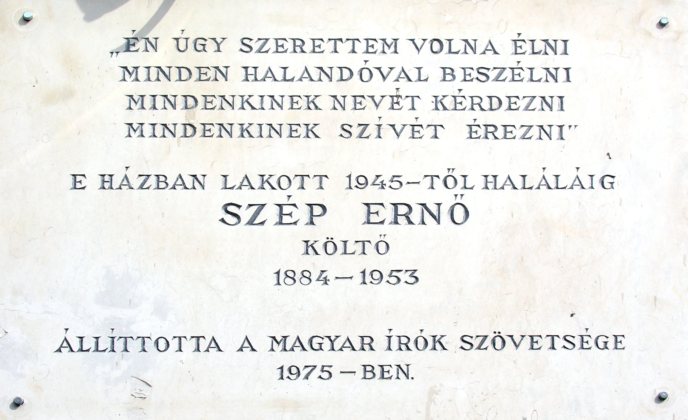 Ernő Szép commemorative plaque in Budapest District VI, Liszt Ferenc Square No 11